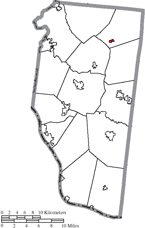 Map of the municipal and township boundaries of Clermont County, Ohio, United States, as of the 2000 census, with the location of the village of Newtonsville highlighted. Township borders are shown only in unincorporated areas in order to differentiate incorporated and unincorporated areas more clearly.